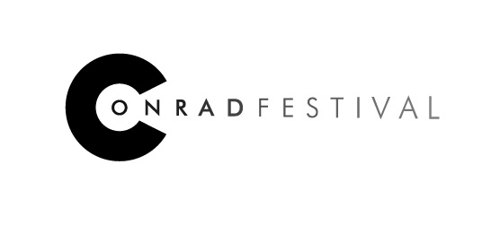 Logotyp Międzynarodowego Festiwalu Literatury im. Josepha Conrada w Krakowie.